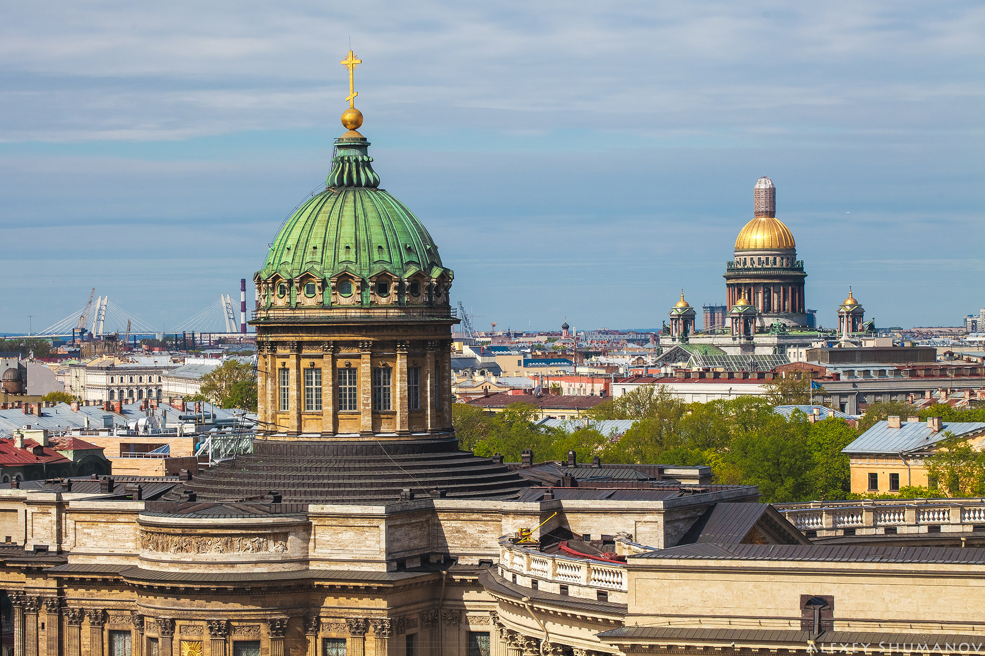 500px provided description: Kazan And Saint Isaac S Cathedral [#sky ,#russia ,#city ,#beauty ,#sunset ,#color ,#street ,#water ,#travel ,#blue ,#sun ,#light ,#clouds ,#urban ,#architecture ,#summer ,#building ,#beautiful ,#life ,#white ,#green ,#black ,#architectural ,#piter ,#colourful ,#great ,#amazing ,#color image ,#awesome ,#saintpetersburg]